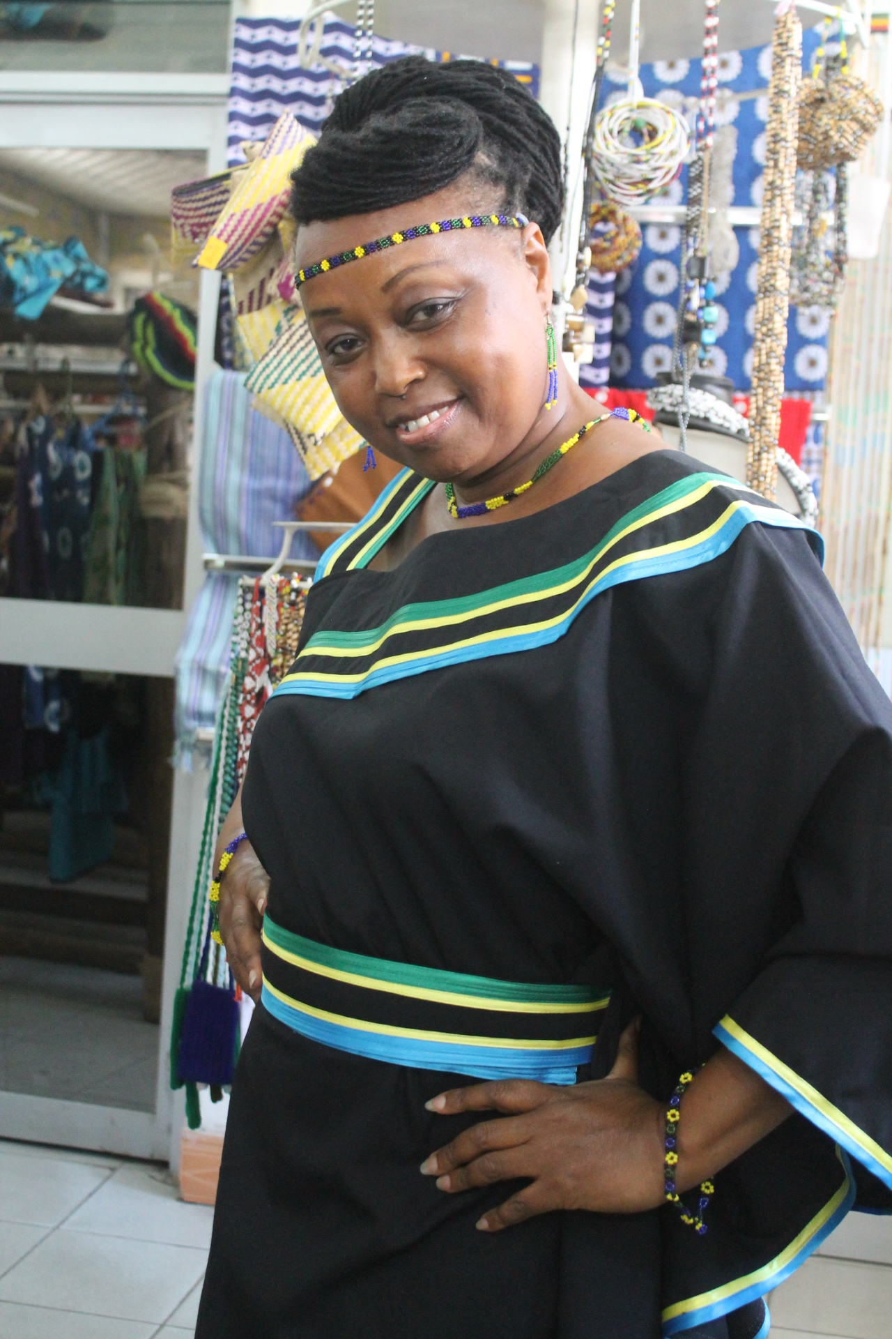 A fashion designer fitting clothes in Tanzania.... This is an image of "African people at work" from Tanzania